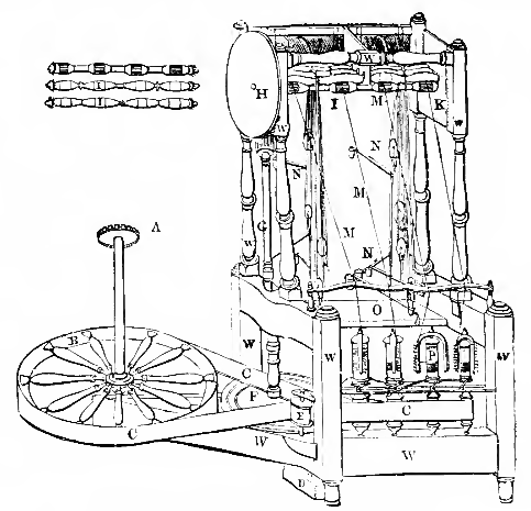 Arkwright_Spinning_frame:This was the precursor to the Water Frame. Images from Marsden 1884 book on Cotton Spinning. *Marsden, Richard (1884) (in english) Cotton Spinning: its development, principles an practice., George Bell and Sons 1903 Retrieved on 26 April 2009.